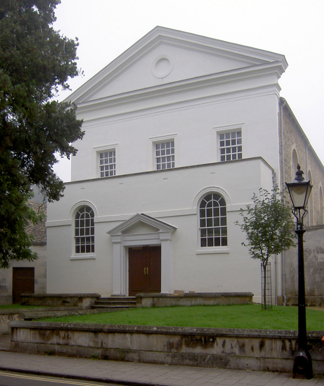 Holywell Music Room in Oxford, England